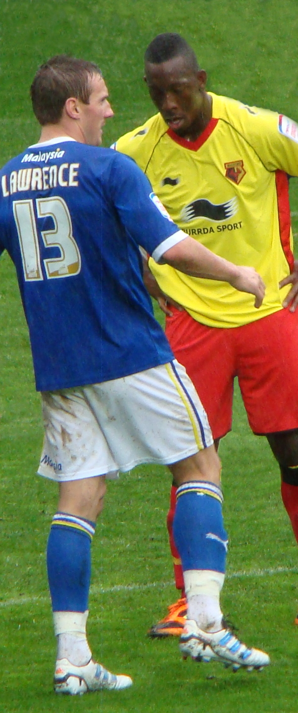 Cardiff player Liam Lawrence talking to Watford defender Lloyd Doyley during the match at Cardiff City Stadium on 9 April 2012.